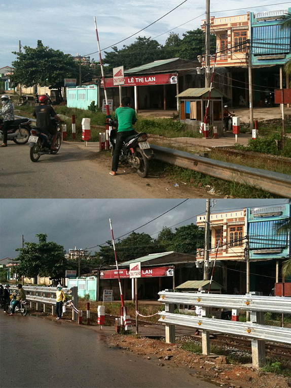 A dual view of the same level crossing in Hoa Vang District, Da Nang, Vietnam, before and after the installation of full-height fences to prevent pedestrians from crossing the tracks at unauthorized points.